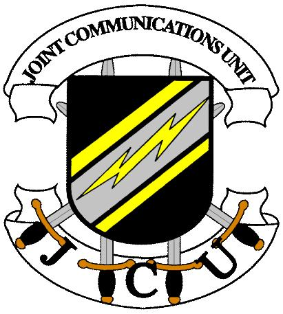 The Joint Communications Unit badge